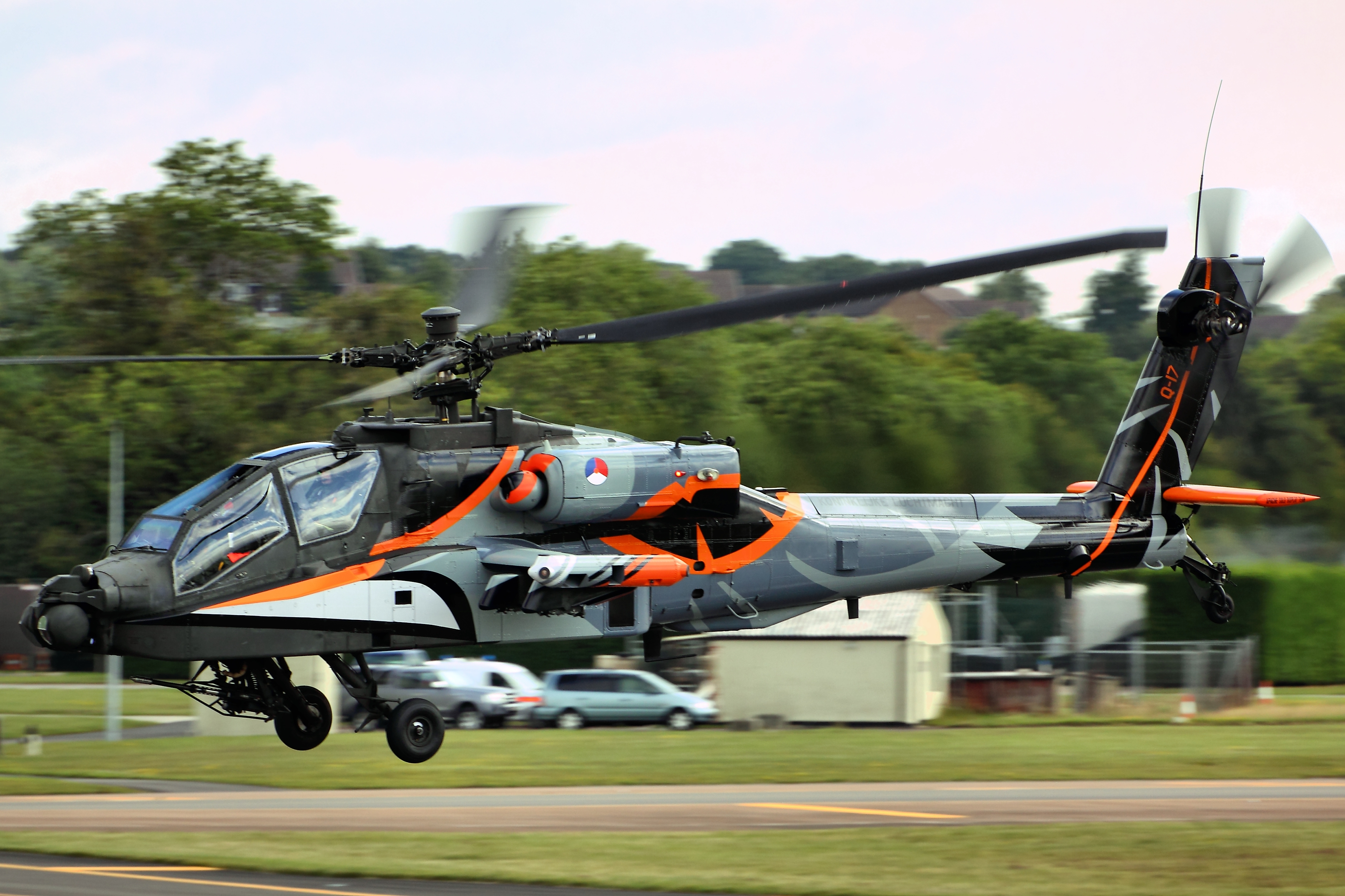 AH-64D Apache - RIAT 2011